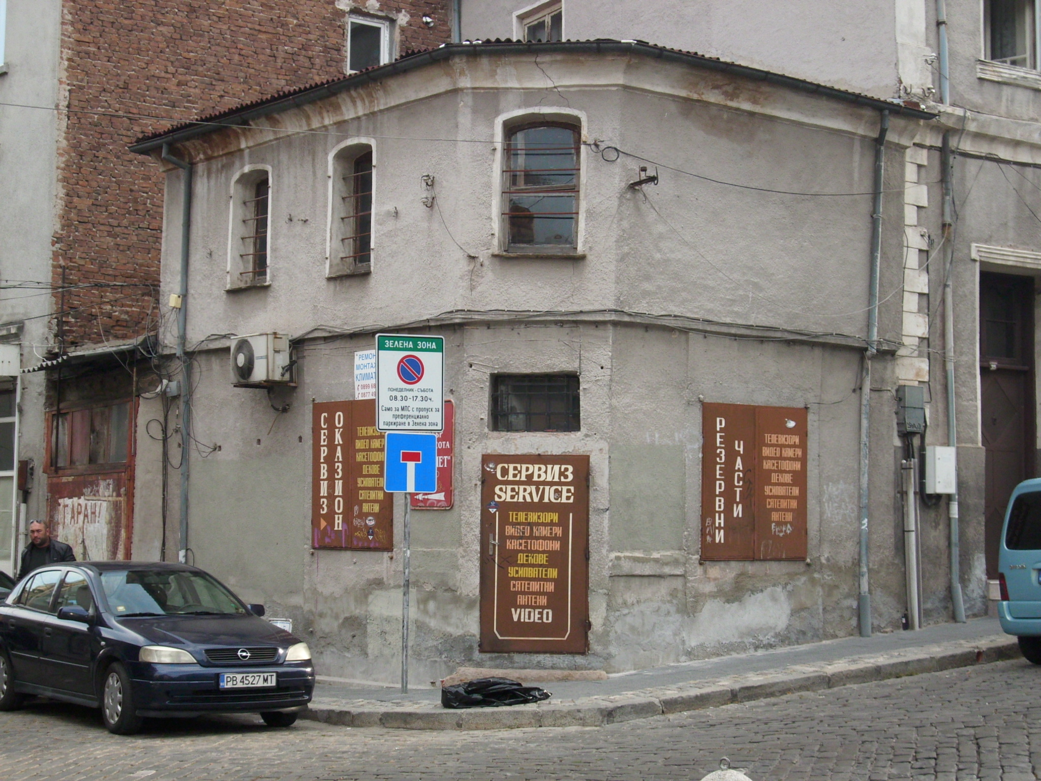 Nineteenth-century building at ул. „Абаджийска“ № 10 in Plovdiv.